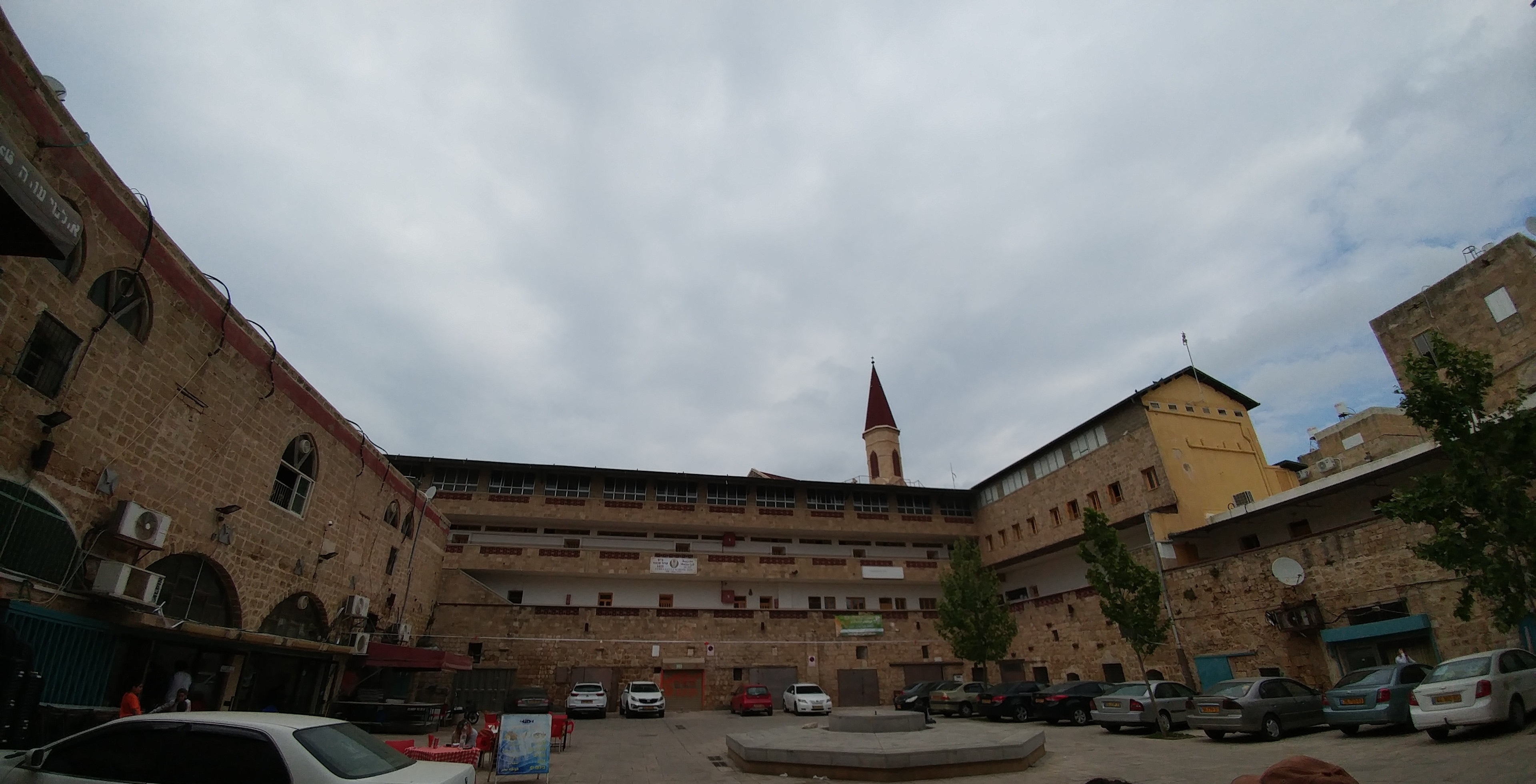 Terra Santa School in Khan el-Farangi.